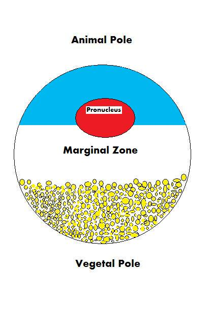 A diagram of an oocyte with its animal and vegetal hemispheres identified